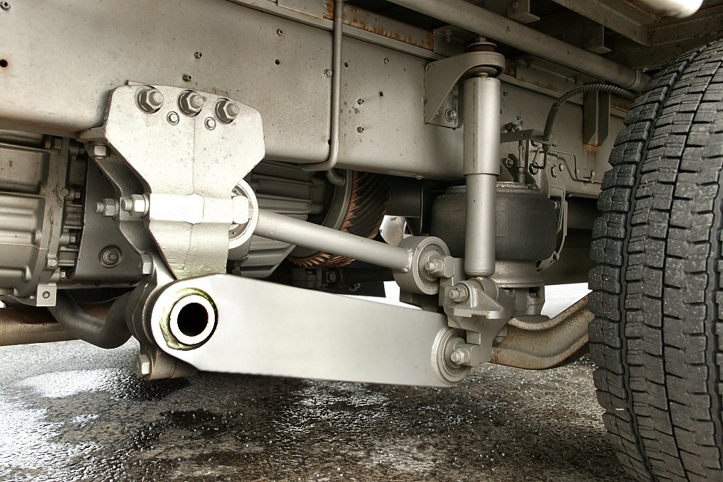 Beam axle.